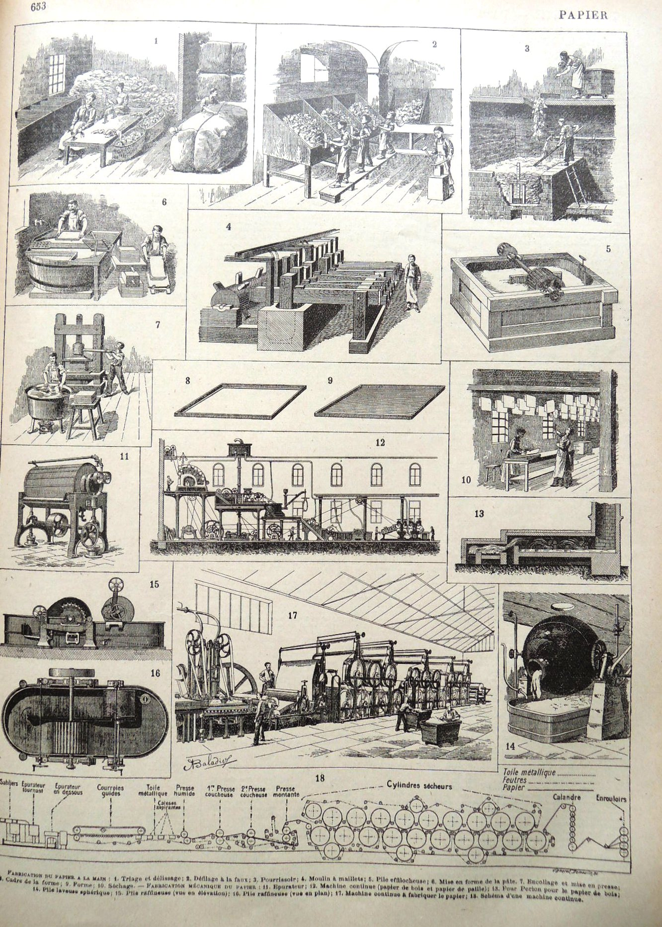 19th Century paper manufacture